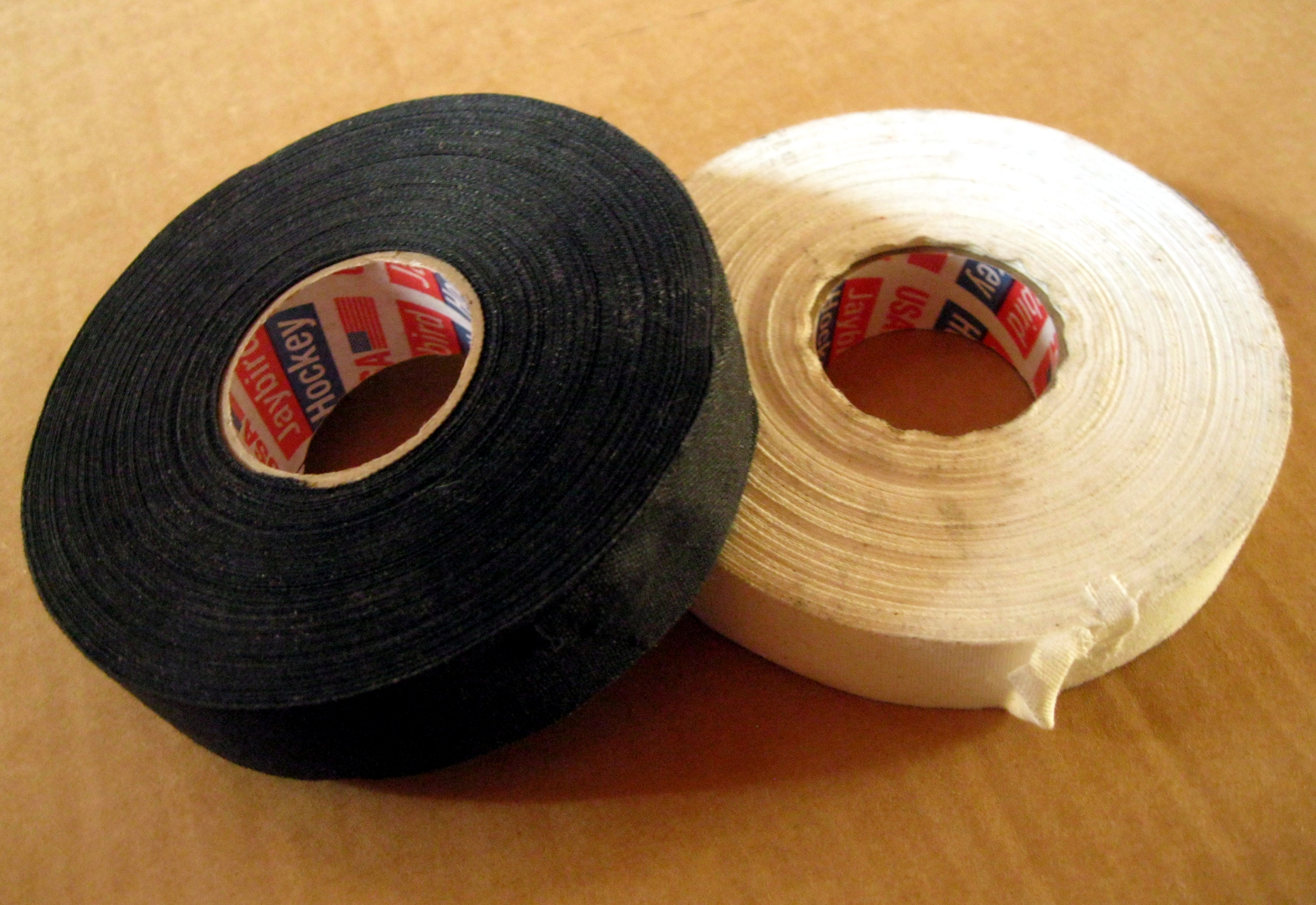 Ice hockey stick tapes.